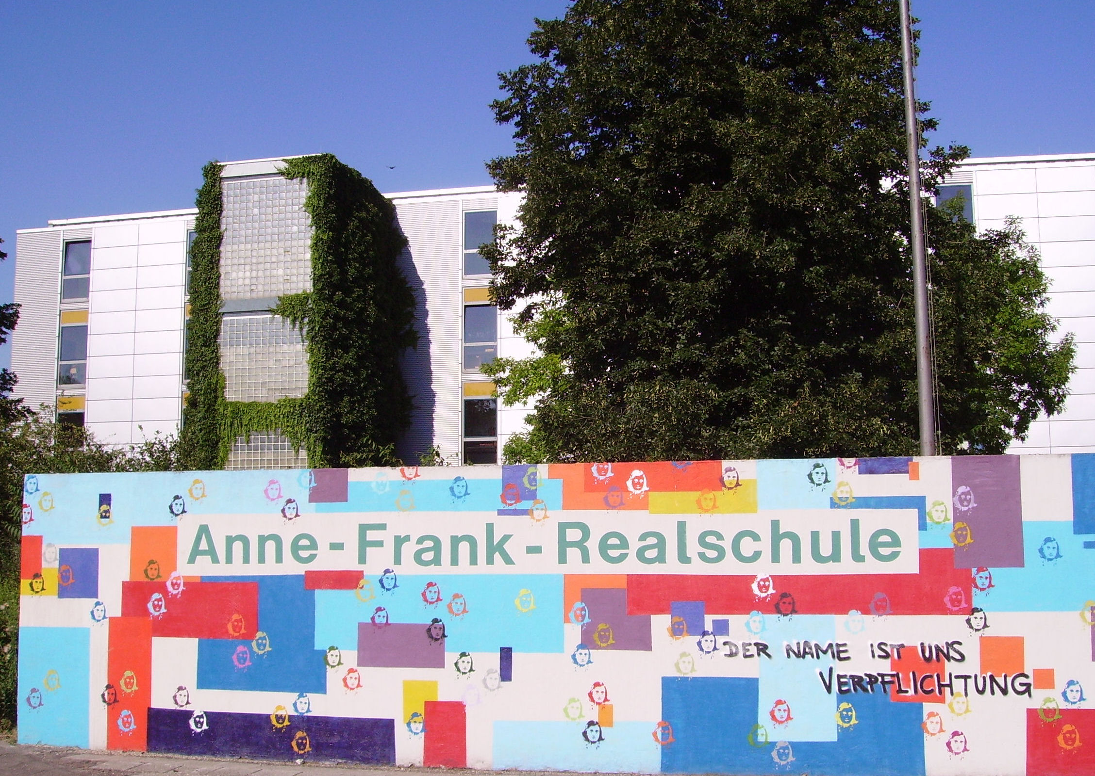 school in Ludwigshafen, Germany